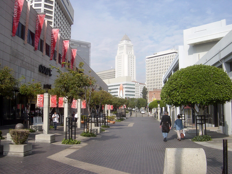 Astronaut Ellison S. Onizuka Street in Los Angeles' Little Tokyo neighborhood. A memorial to the Challenger disaster is visible as well as Los Angeles City Hall. Photo taken by Bobak Ha'Eri, on November 11, 2006. Please observe license and properly cite in use outside Wikipedia.